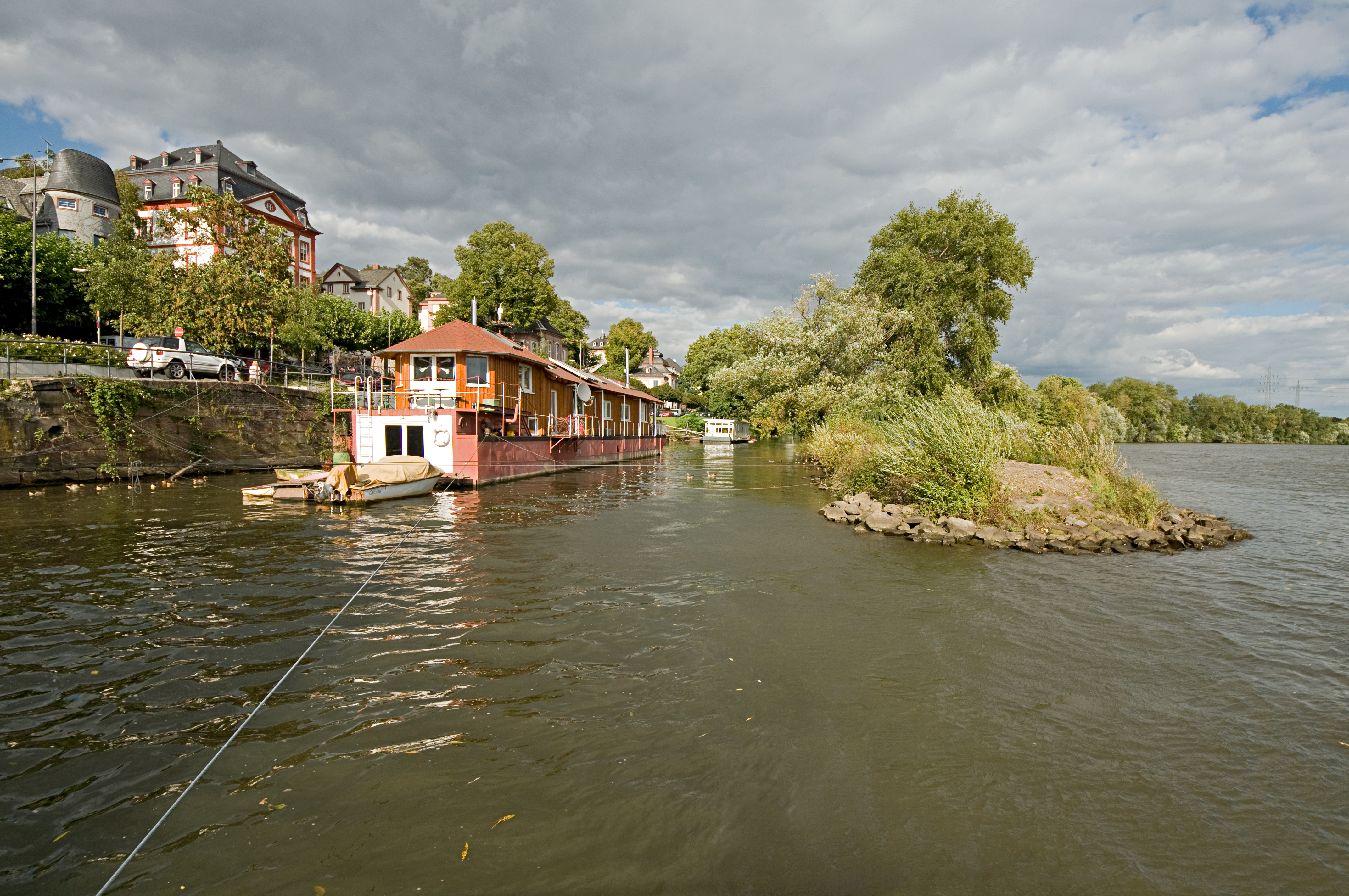 Nidda estuary with houseboats in Frankfurt-Höchst